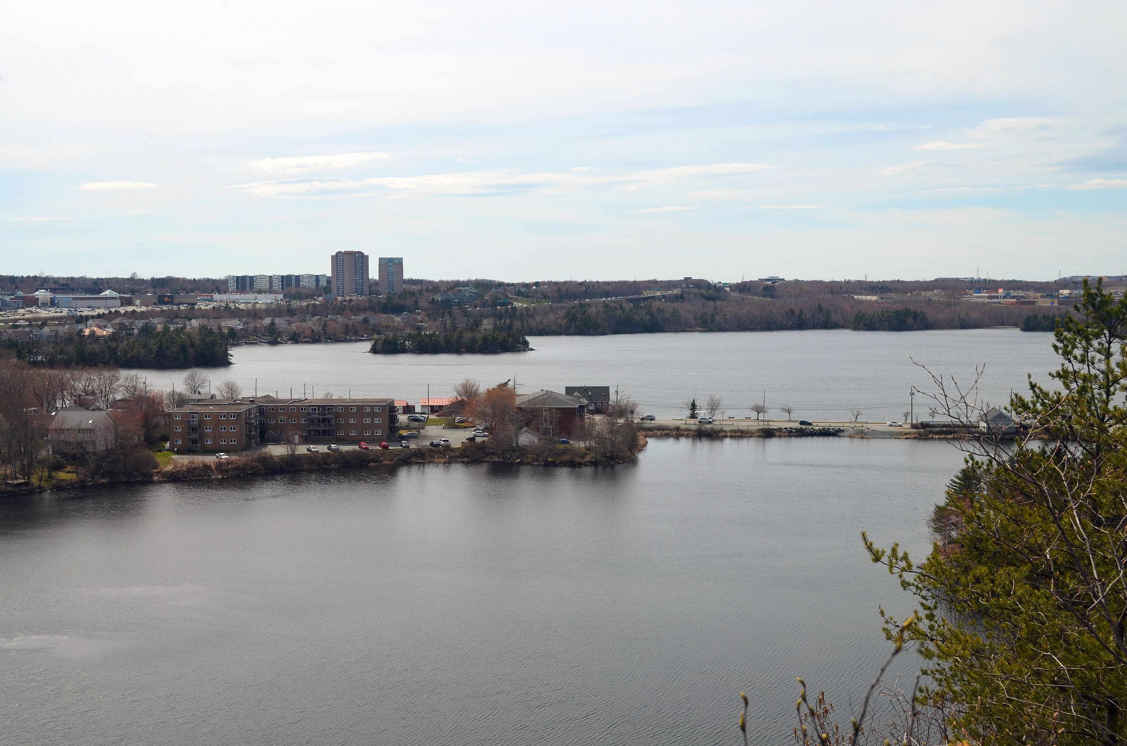 Red Bridge Pond (foreground) and Lake Micmac (background) in Dartmouth, Nova Scotia, in May 2019.